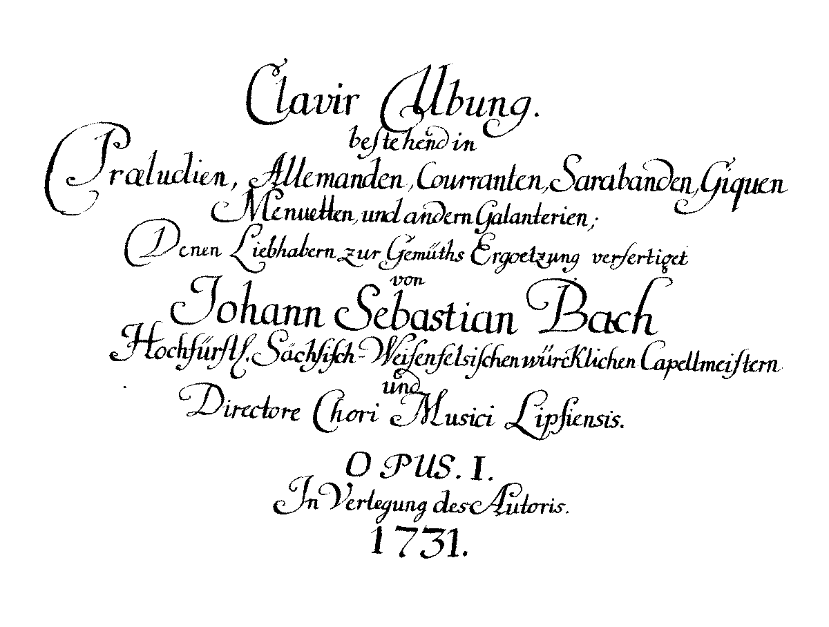 Johann Sebastian Bach : "Clavir Übung op. I", 1731, title-page